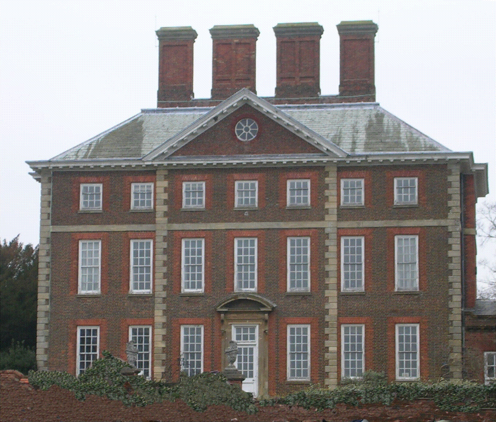 Winlsow Hall, Buckinghamshire, England.